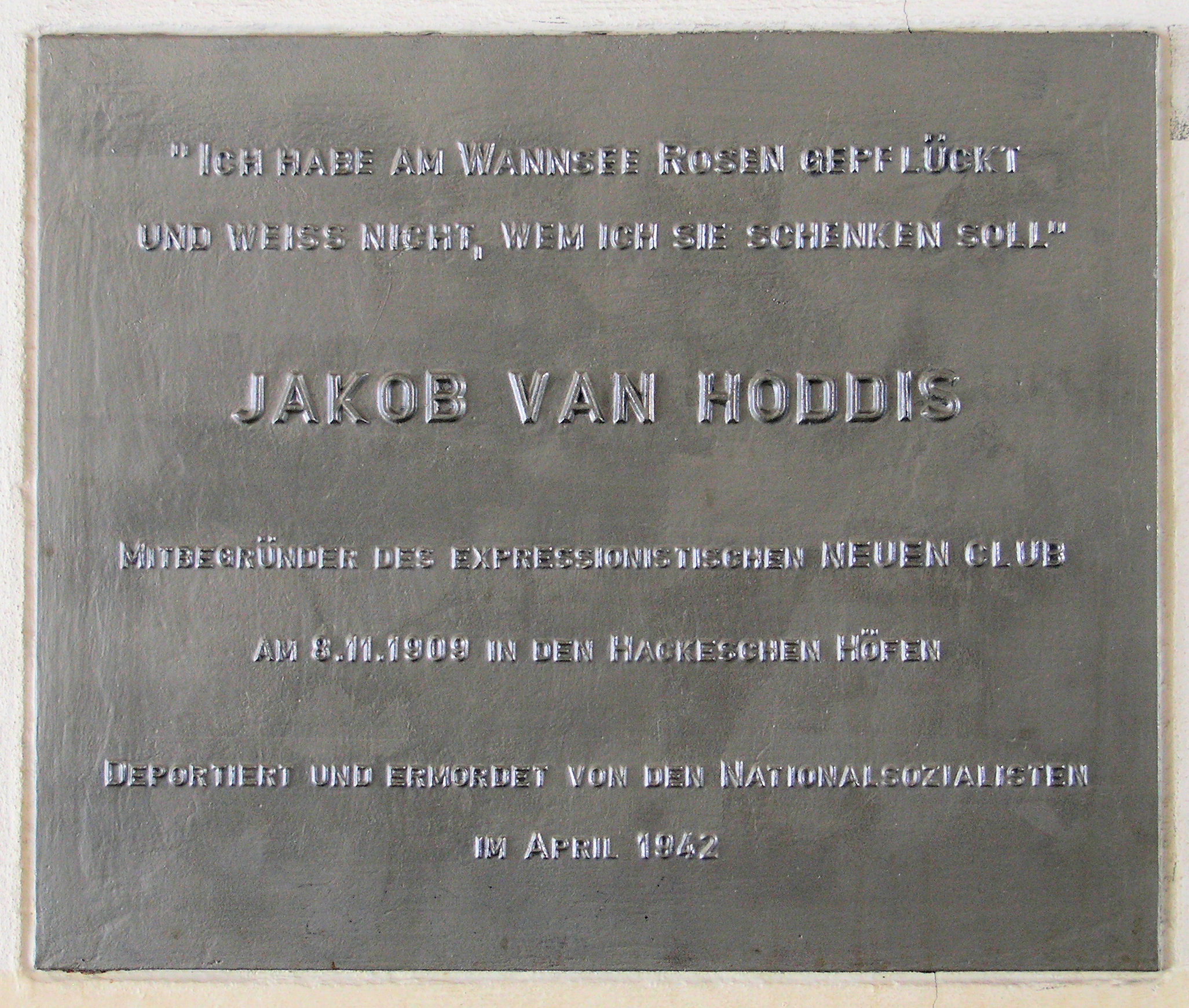 Memorial plaque, Jakob van Hoddis, Rosenthaler Straße 40, Berlin-Mitte, Germany Koordinate:52°31′26″N 13°24′9″E / 52.52389°N 13.4025°E